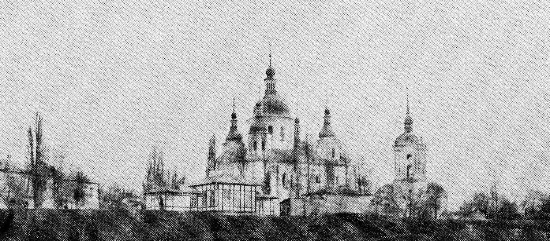 A panorama of the St. Cyril's Monastery in Kiev, Ukraine.